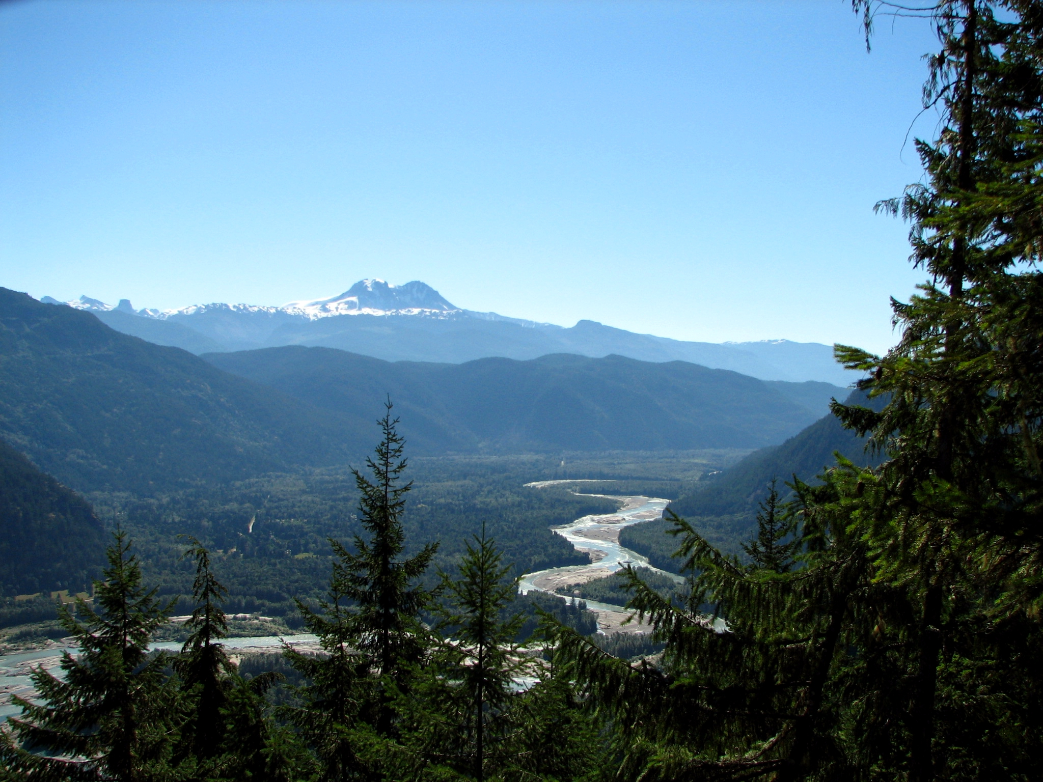 Looking southward up the Squamish valley from the Sigurd Ck trail lookout. Mount Garibaldi can be seen prominently in the background.